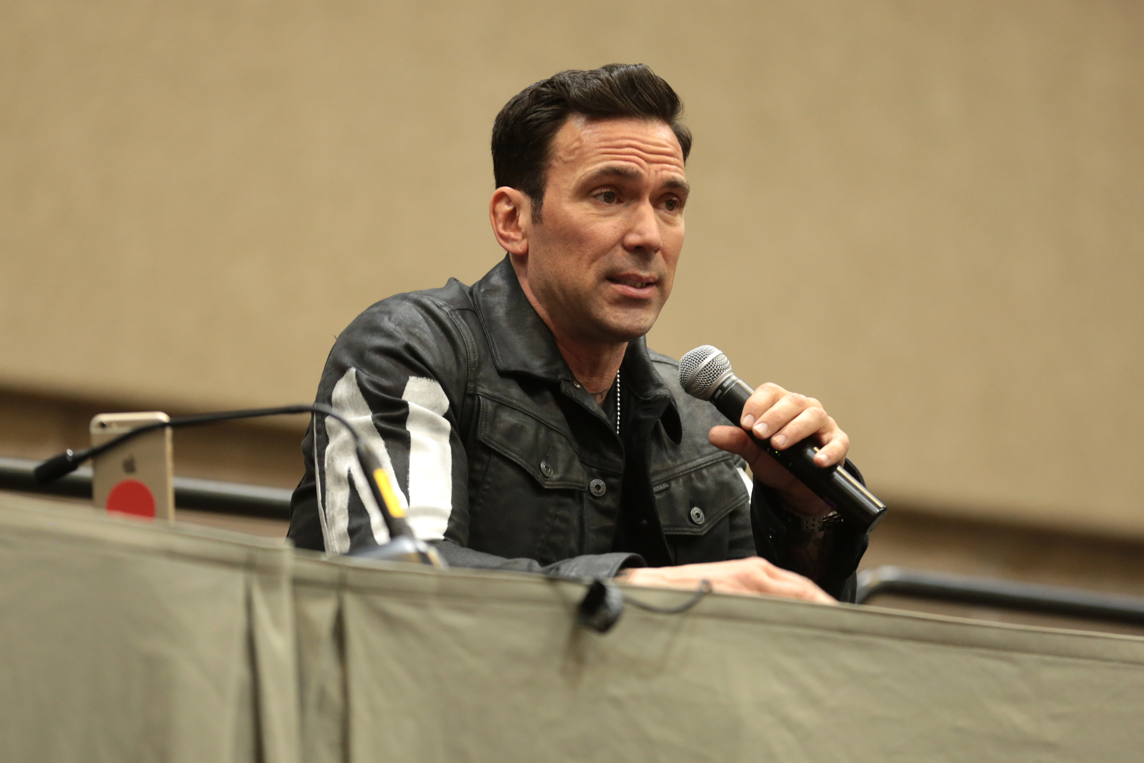 Jason David Frank speaking at the 2017 Phoenix Comicon at the Phoenix Convention Center in Phoenix, Arizona.